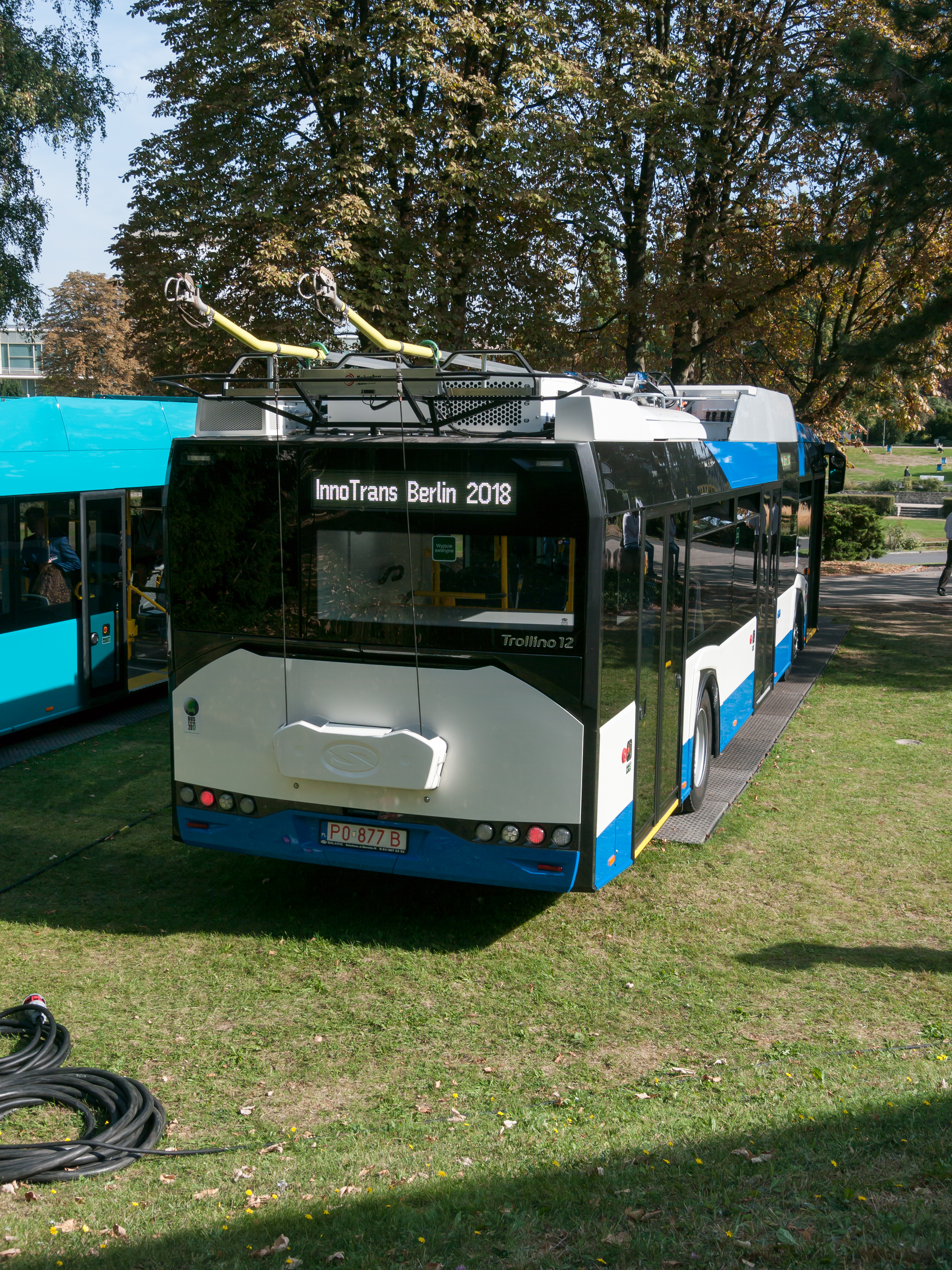 Innotrans 2018